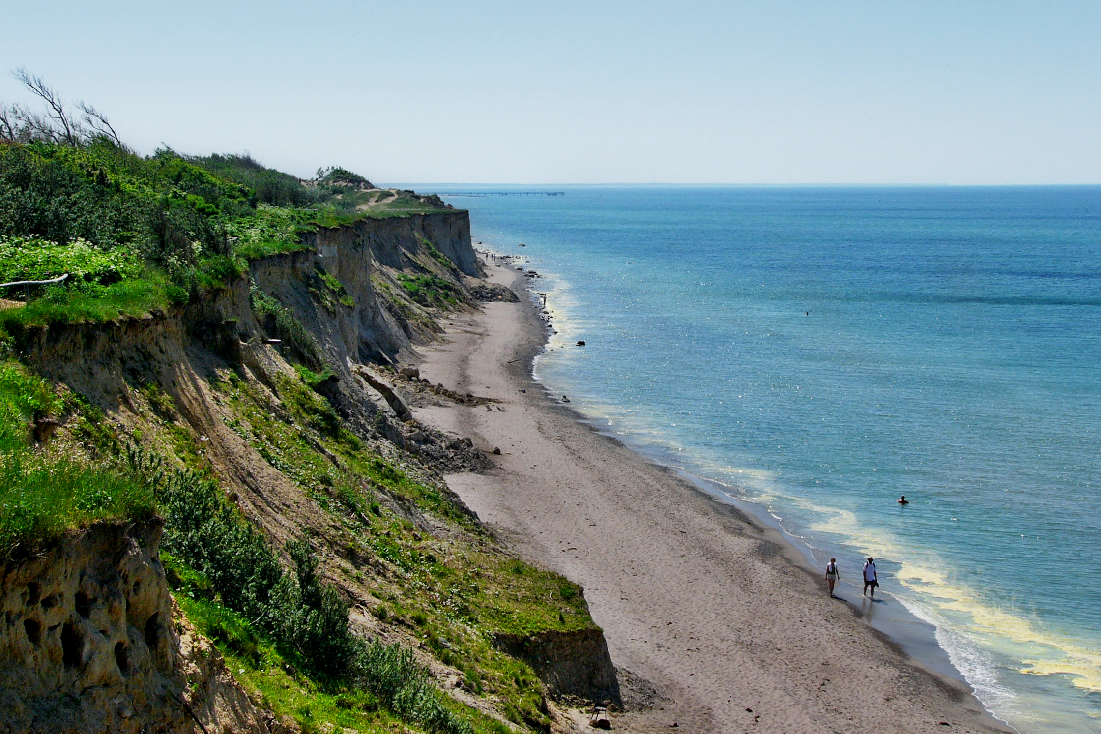 Cliffs and beach at peninsula Darss near Ahrenshoop, Mecklenburg-Vorpommern, Germany.